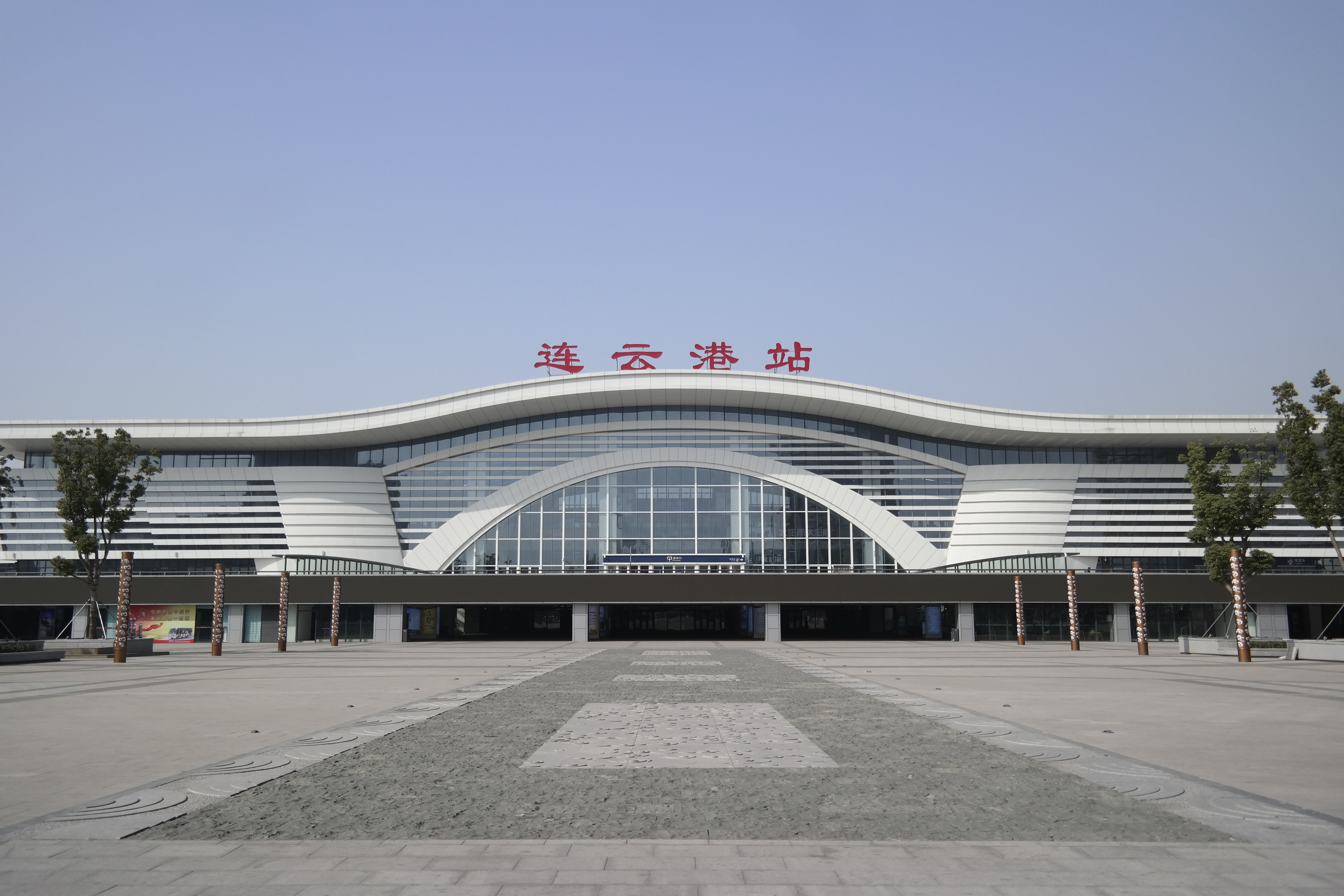 Lianyungang Railway Station